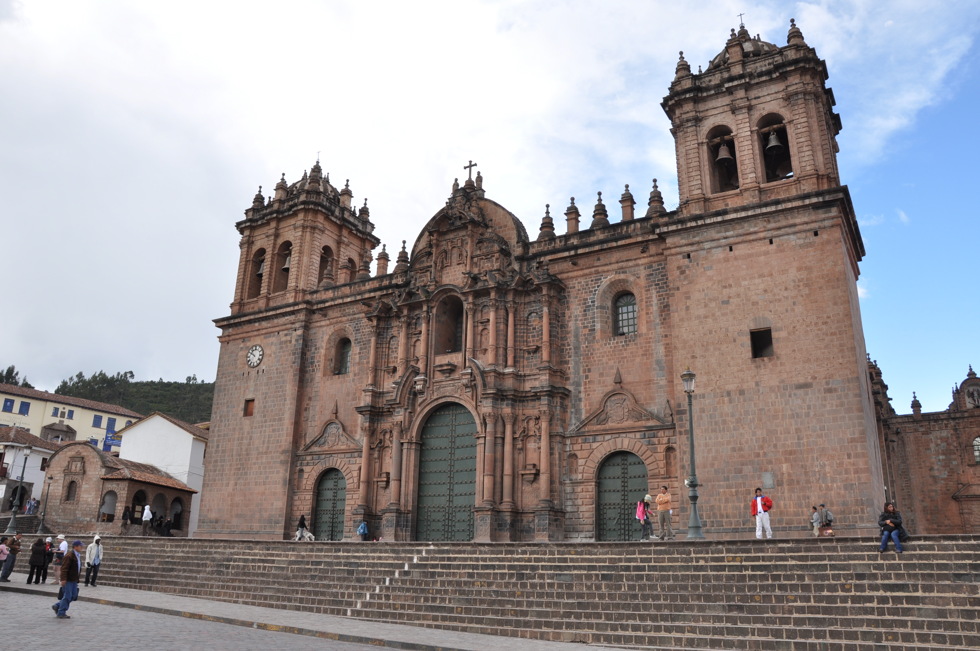 Started in 1559 and taking almost a hundred years to build, the Catedral squats on the site of Inca Viracocha's palace and was built using blocks pilfered from the nearby Inca site of Saqsaywamán. The cathedral is joined with Iglesia del Triunfo (1536) to its right and Iglesia de Jesús María (1733) to the cathedral's left.